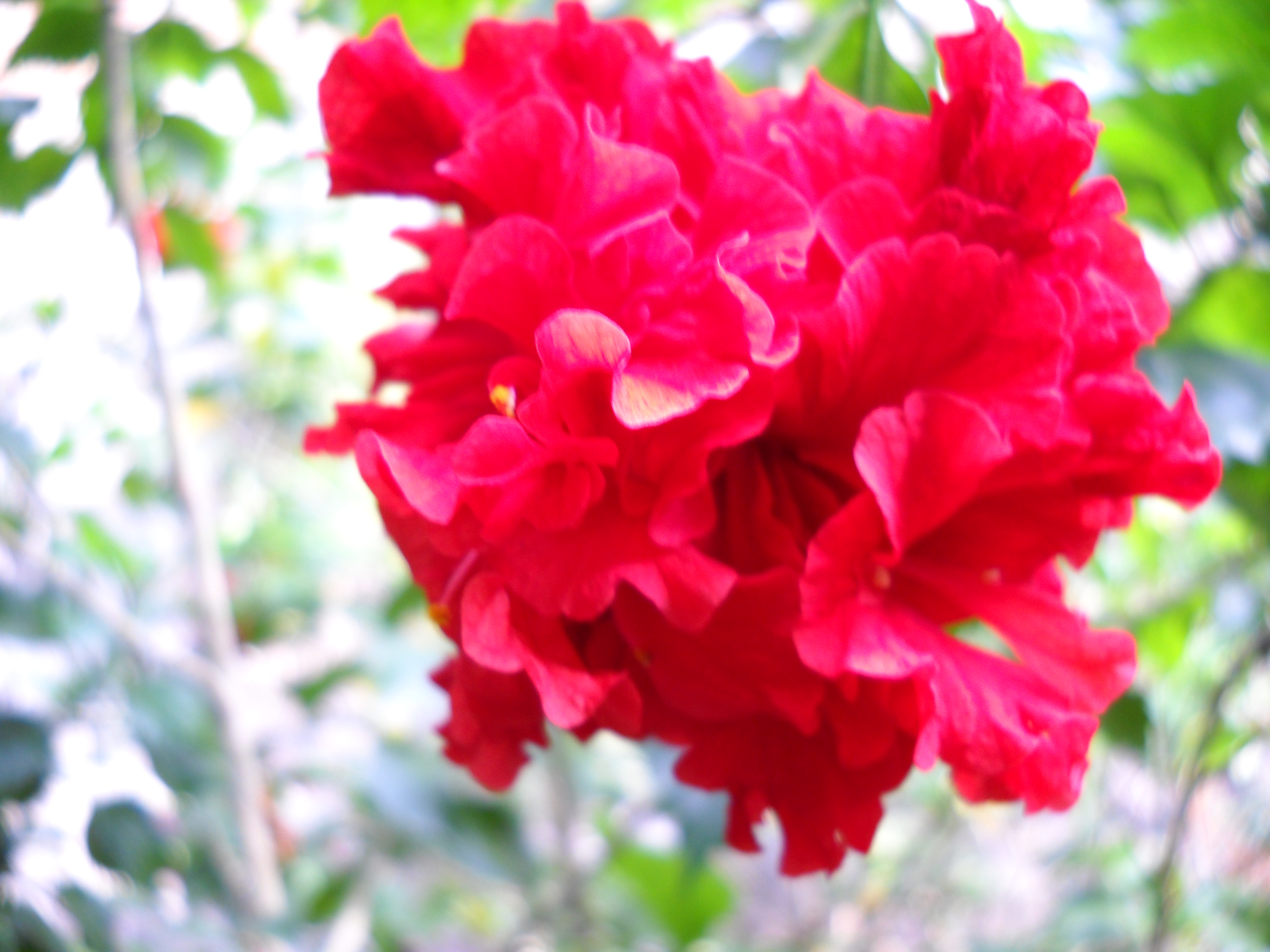 Red coloured layered hibiscus